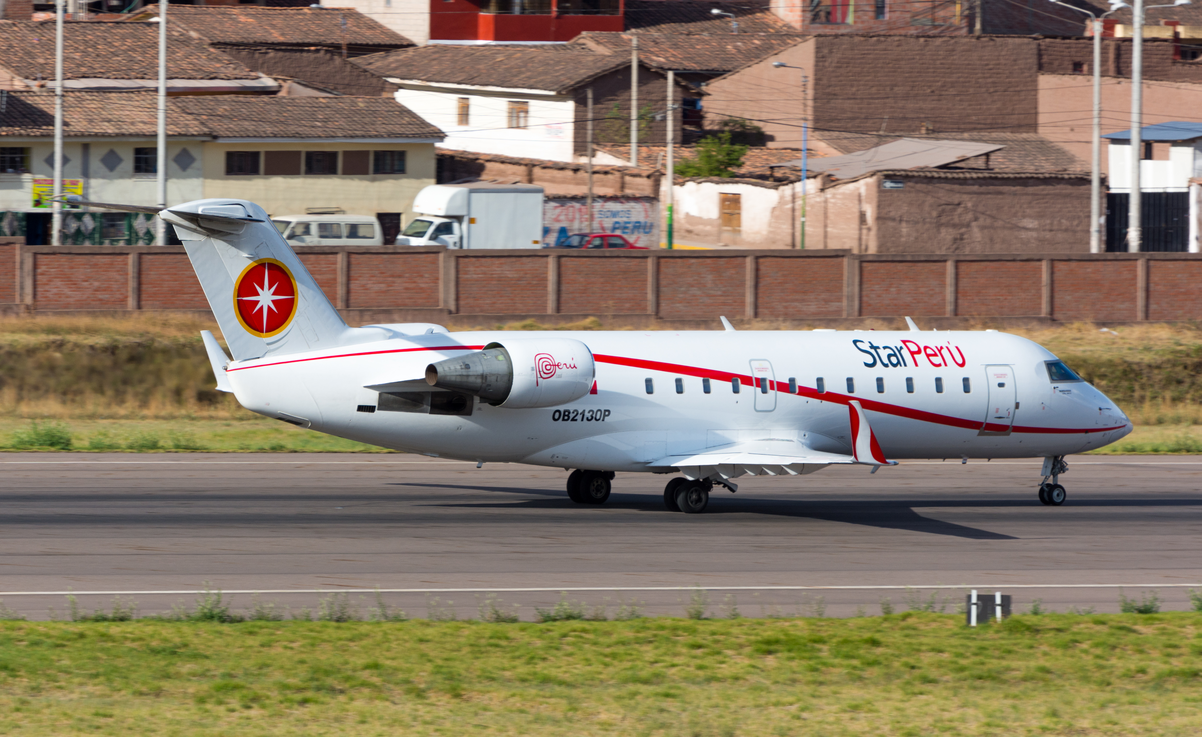 CRJ 200 - Star Perú take off Cusco